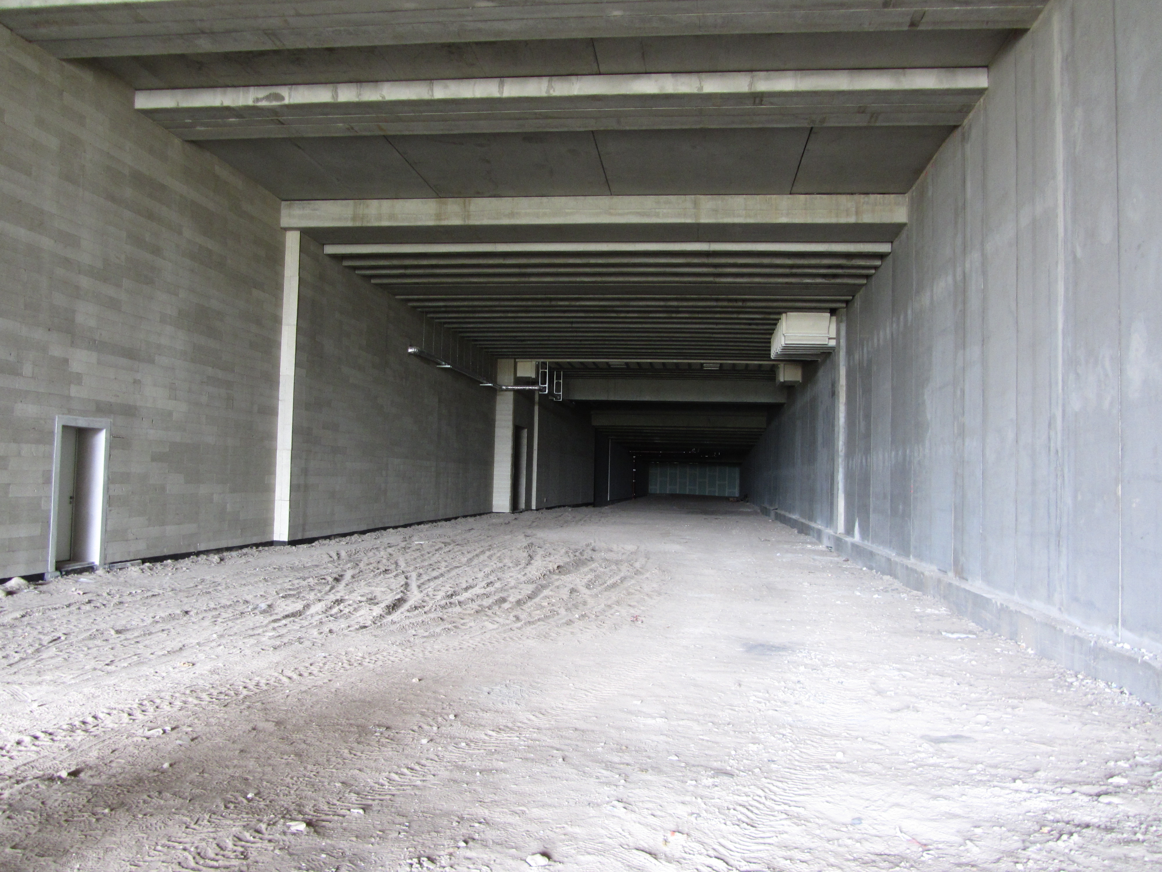 This free space is the southern most part of the long room left open for a possible new S-Bahn line linking the underground station Potsdamer Platz the above ground lines south of the tunnel mounds from station Anhalter Bahnhof, running in parallel with the U-Bahn line on the viaduct between stations Mendelssohn-Bartholdy-Park and Gleisdreieck